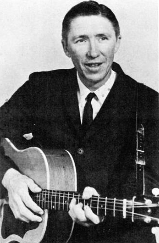 Trade ad for Jim Nesbitt's single "The Friendly Undertaker".To better adapt it to his respective Wikipedia article, the ad was cropped and cleaned in a graphics editing program. The original can be viewed at the source below.